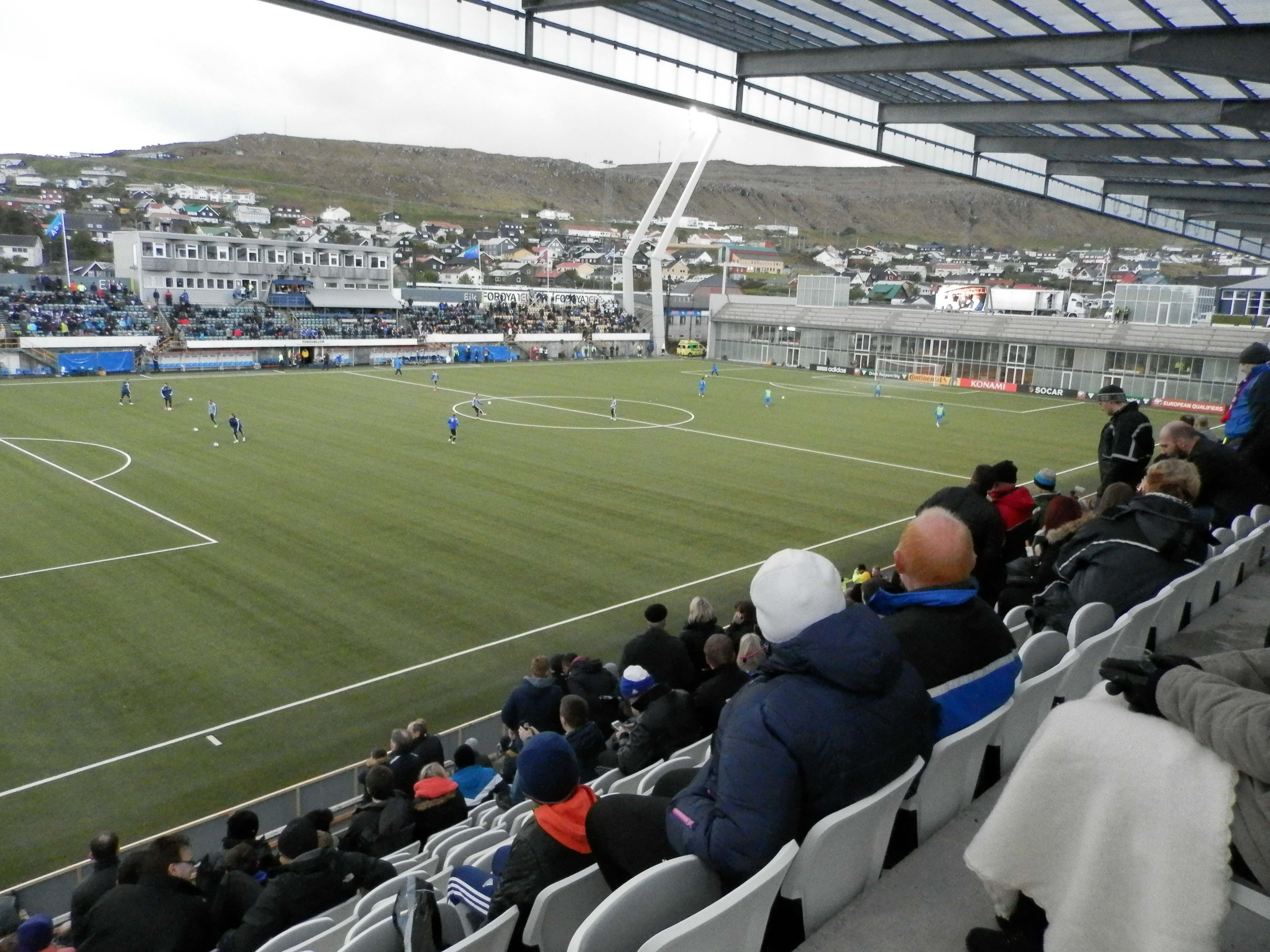 Tórsvøllur is the national stadion of the Faroe Islands national football team located in Tórshavn. There is also another national stadion which was used earlier, located on Svangaskarð in Toftir. This photo was taken on 13 June 2015 when the Faroe Islands won 2-1 against Greece.